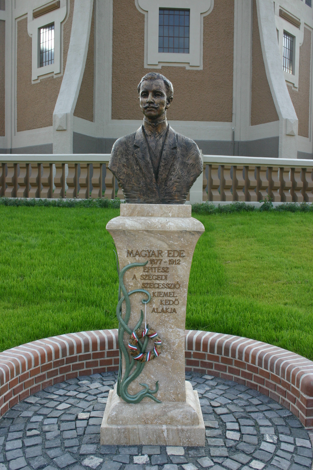 Bust of Magyar Ede in Szeged